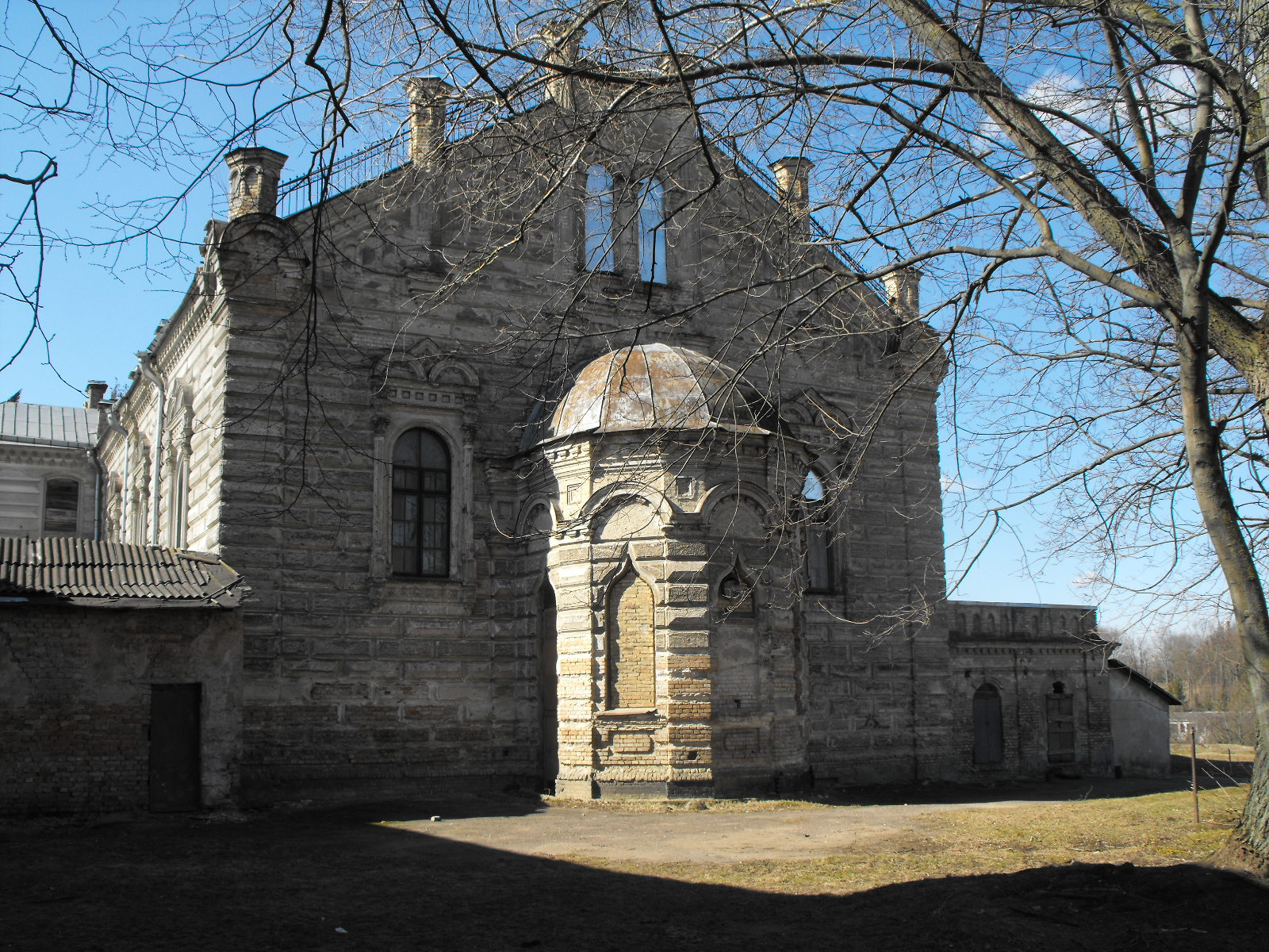 Great sinagoga in Grodno